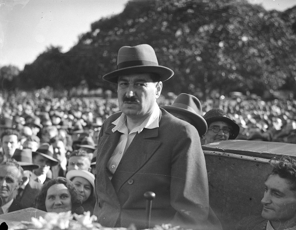 Egon Kisch addresses a crowd in Sydney's Domain on the dangers of Hitler's Nazi regime.